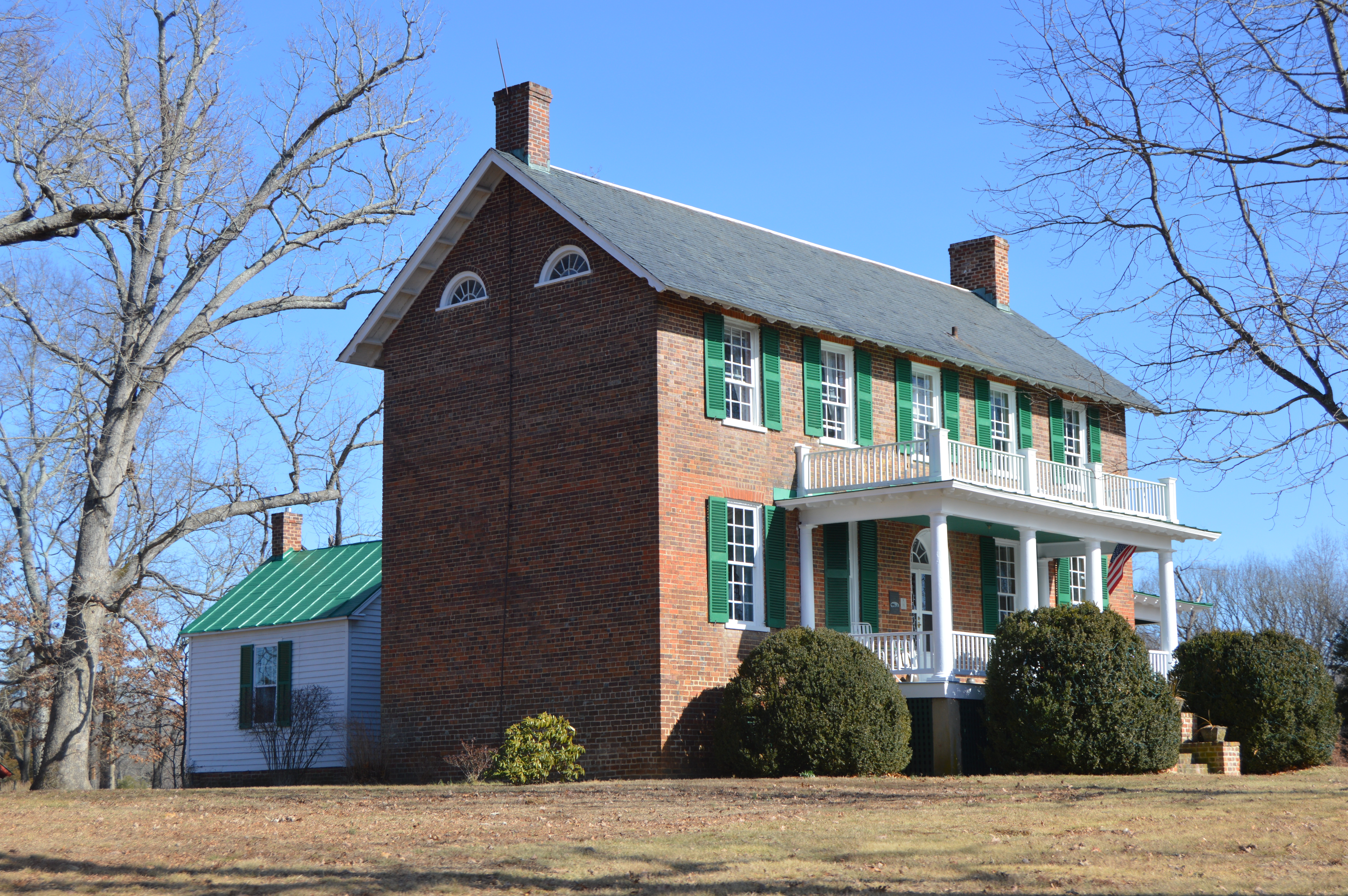 Front and western side of The Oaks, located on Tabscott Road on the eastern fringe of Fluvanna County, Virginia, United States. Built in 1830, it is listed on the National Register of Historic Places.